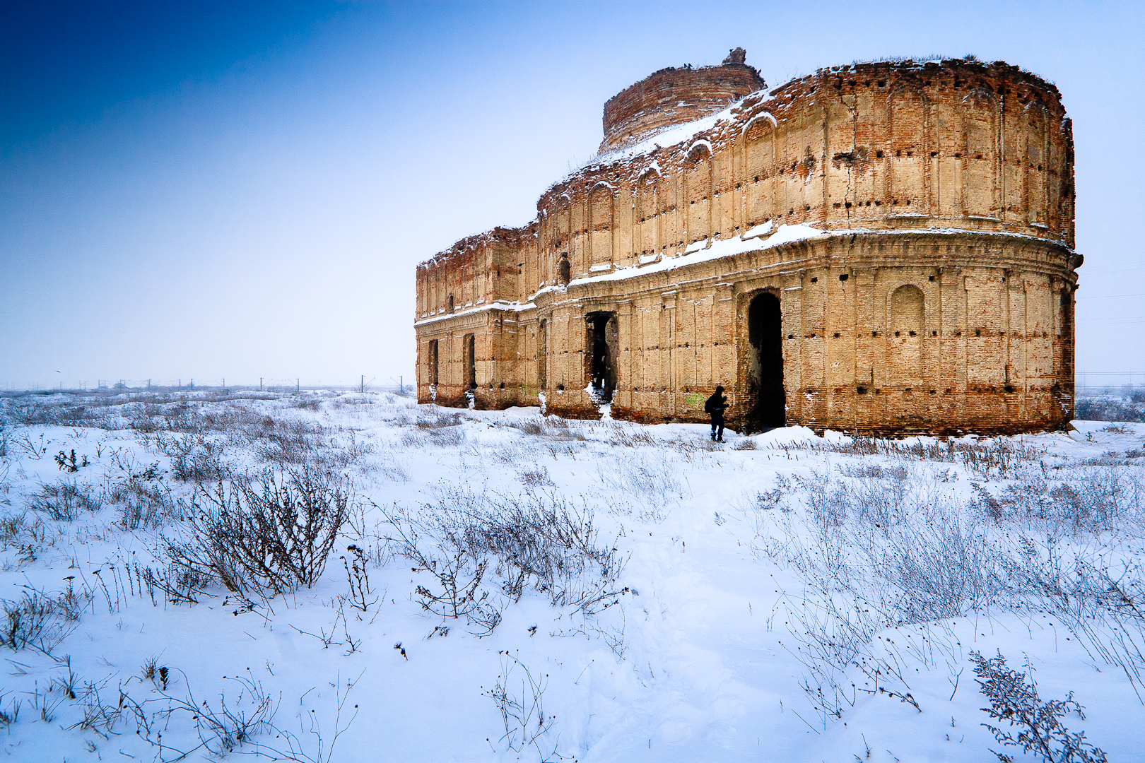 Winter picture of Chiajna Monastery. The monastery is situated on the outskirts of Bucharest.